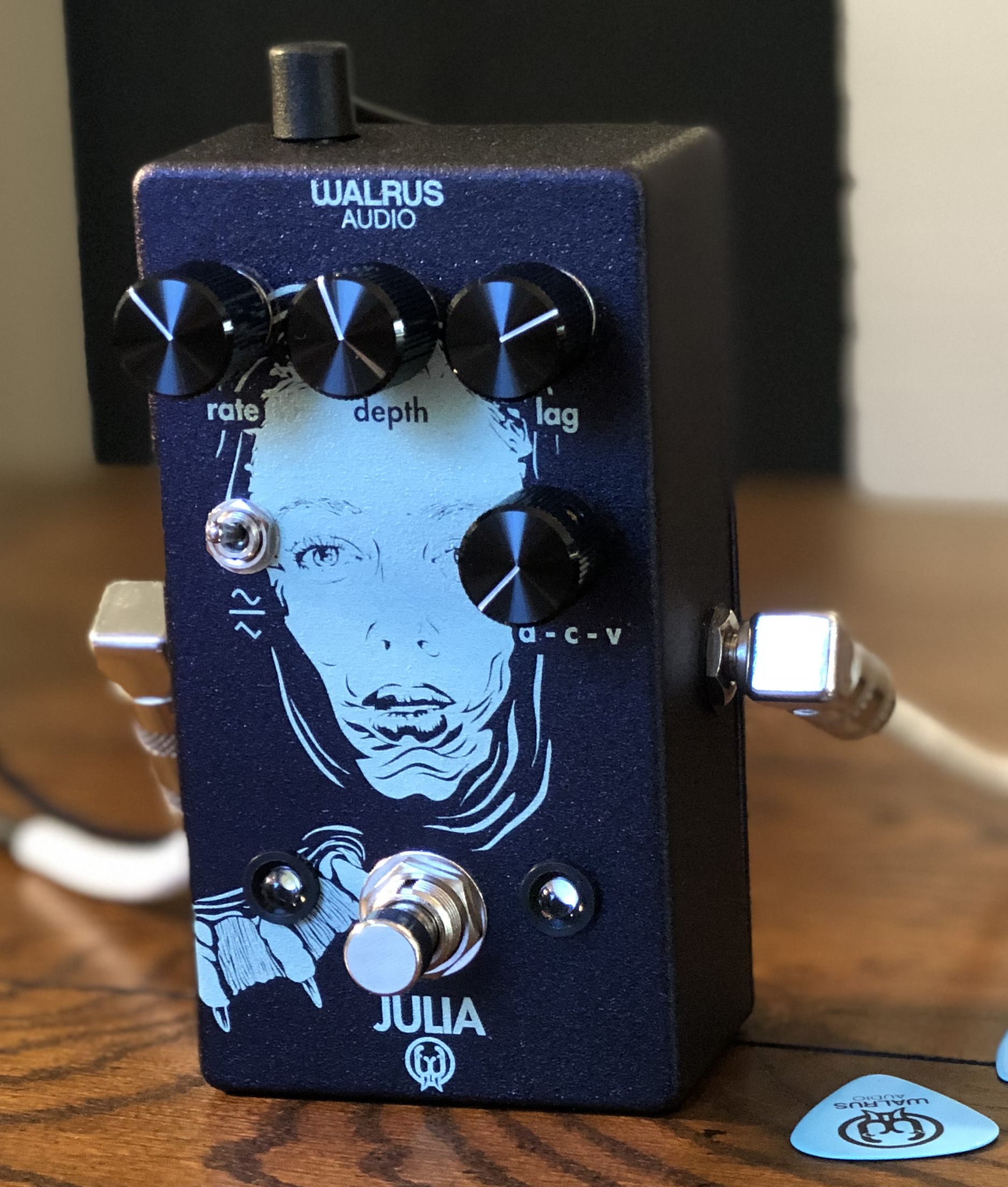 Walrus Audio Julia Analog Chorus and Vibrato Pedal